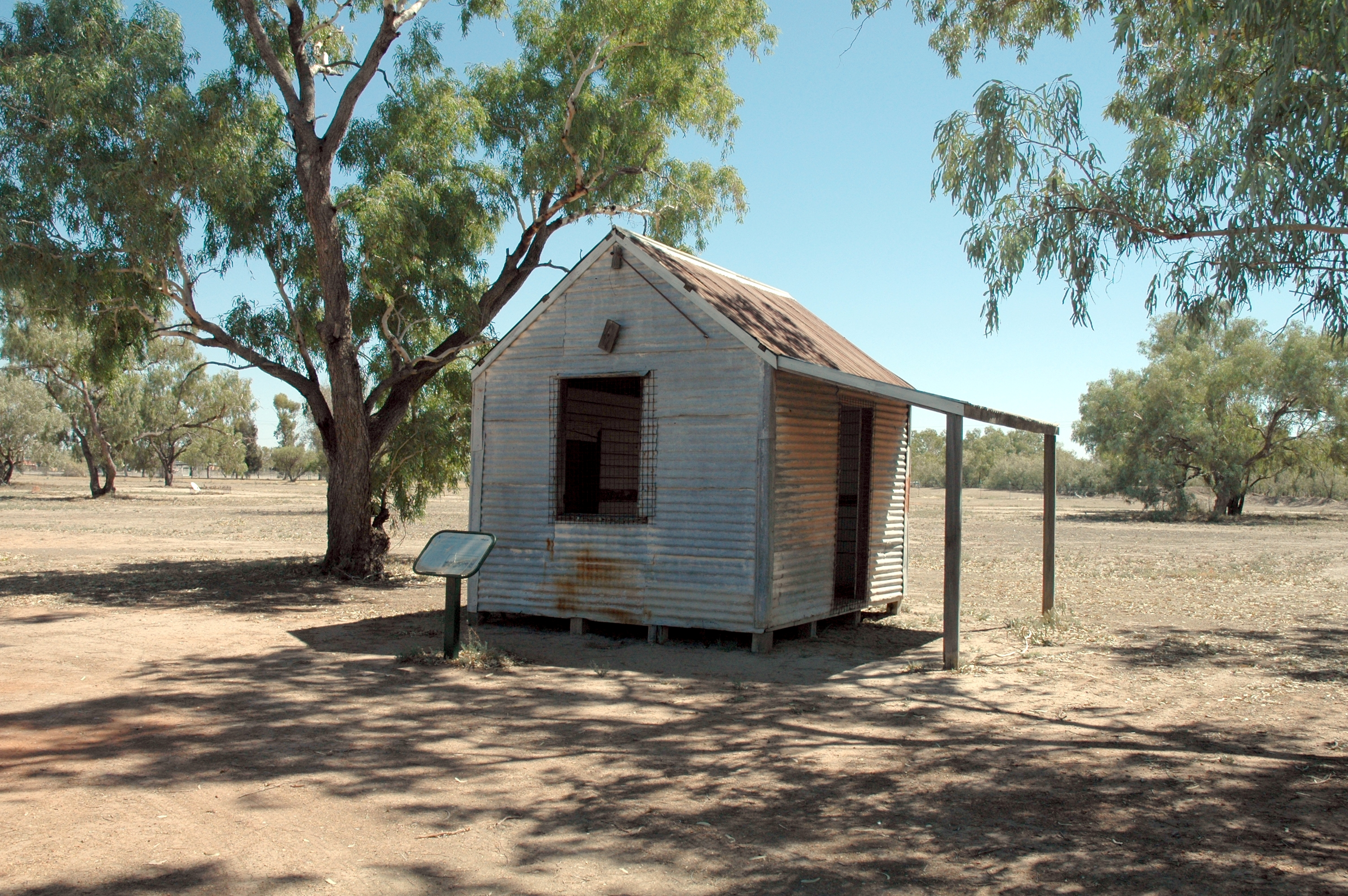 Historic mosque in the cemetery, Bourke, NSW, Australia. In the 19th and early 20th centuries camels were used extensively in outback Australia, and many of the camel keepers were Afghans. The camels and their keepers are gone, but this humble mosque remains as a reminder of the important part they played in the development of modern Australia. Another early Afghan-Australian mosque survives in the mining city of Broken Hill.